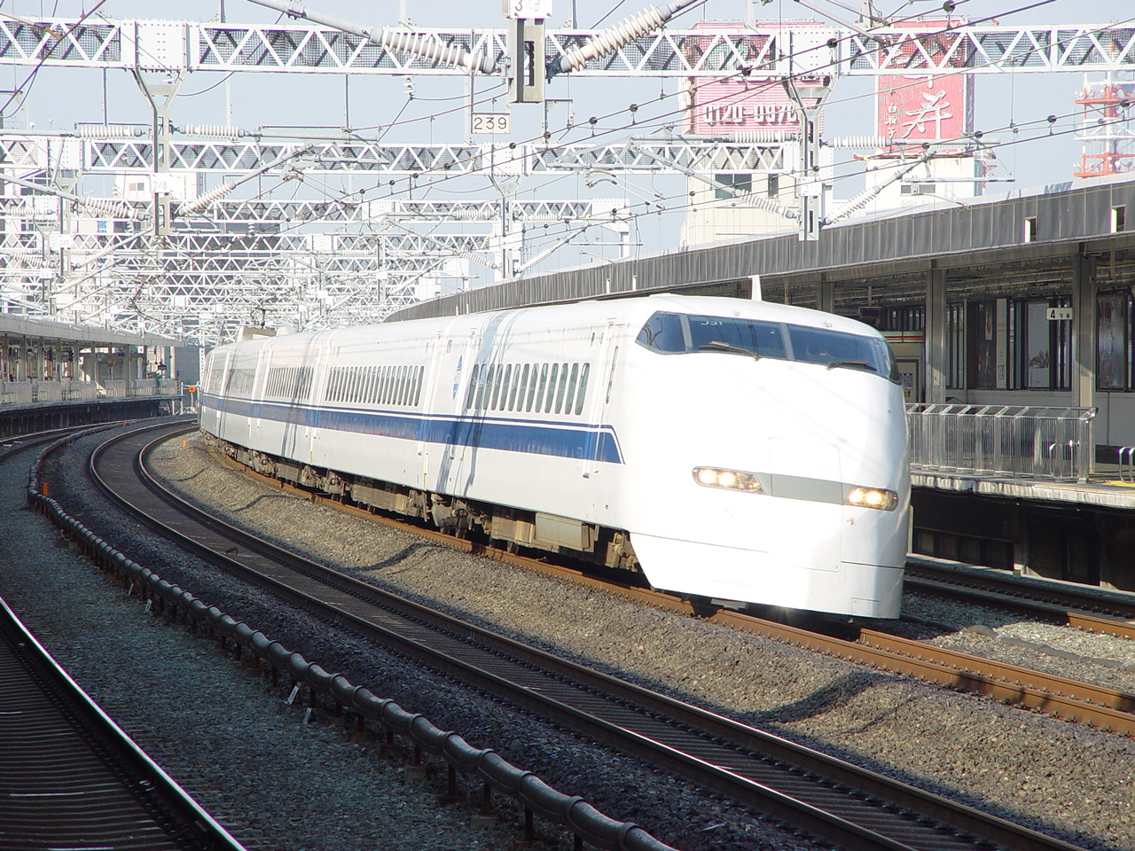 JR Central 300 series set J31 shinkansen heading westward through Hamamatsu Station